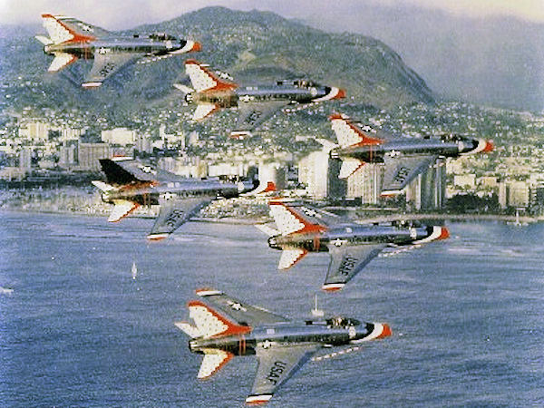 United States Air Force photo of the United States Air Force Thunderbirds demonstration team, using F-100 Super Sabres, 1966